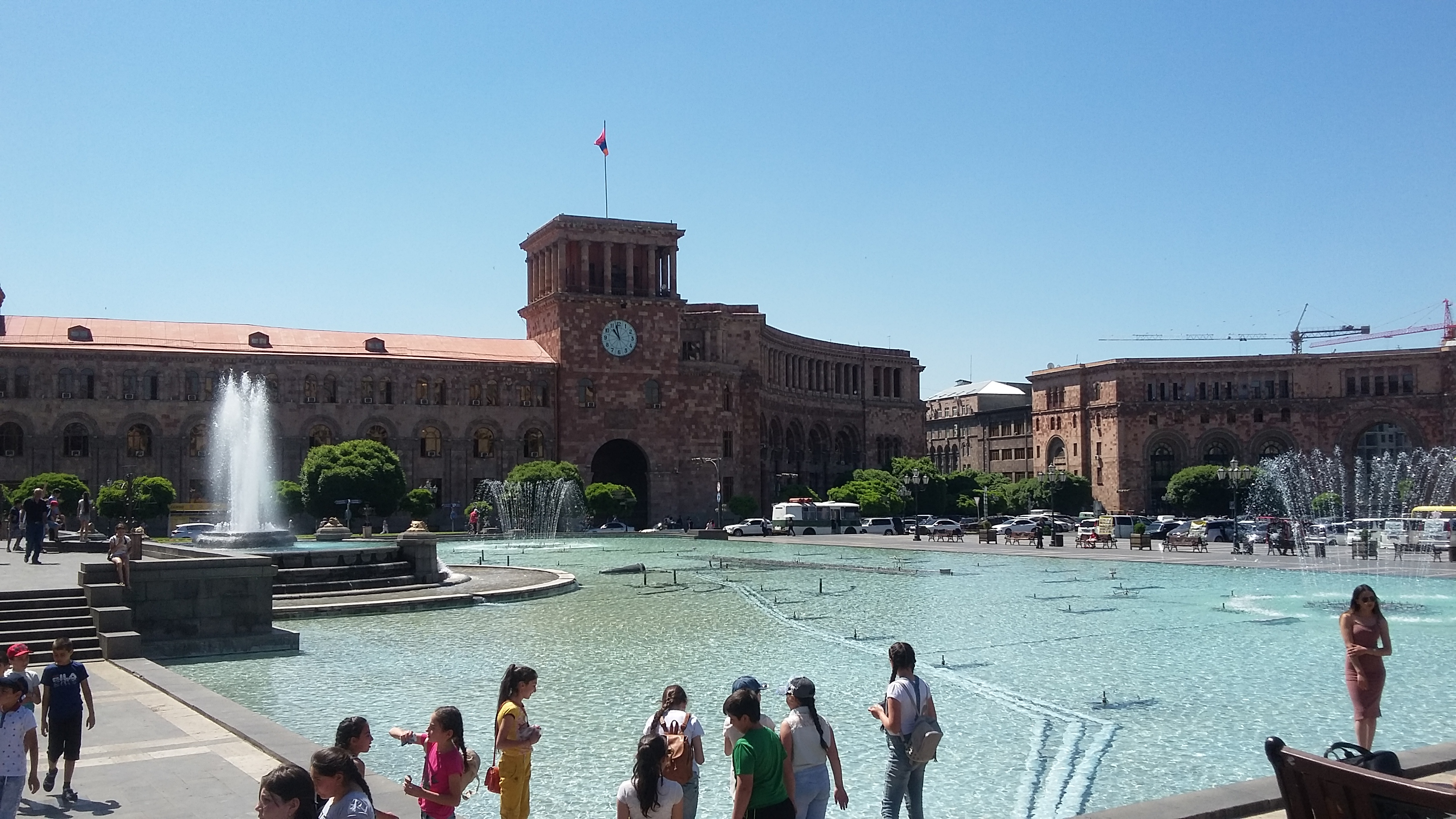 Fountains at the Republic Square, Yerevan